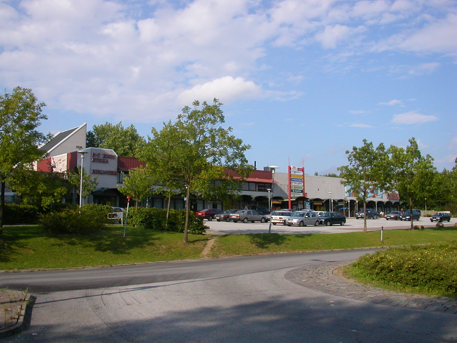 Photo of central Linero, Lund. Photograph:User:Gunnar Larsson (18/08/2004)